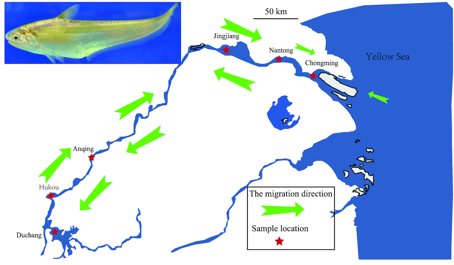 Seasonal migration across China of the Chinese tapertail or Japanese grenadier anchovy, Coilia nasus. Features a representative image of this economically important fish and geographic distribution of collected samples along the putative migration route. The red stars represent sample collection sites and the green arrows indicate the direction of reproductive migration along the Yangtze River and into the sea.